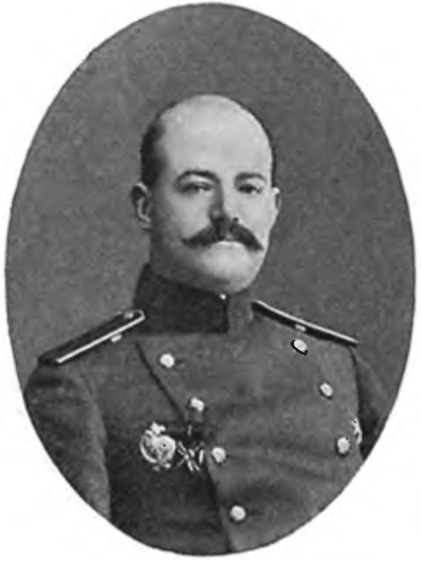 Gartman, Boris Yegorovich